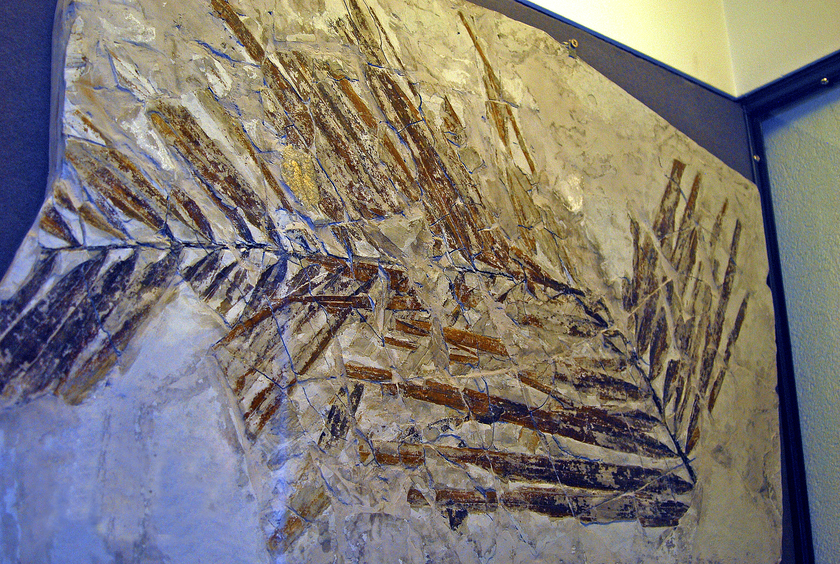 Fossil of Phoenicites from Tanaro River, Italy. On display at the Museo Archeologico e di Scienze Naturali F. Eusebio, Alba, Italy